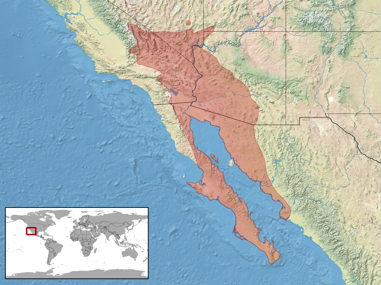 geographic distribution of Dipsosaurus dorsalis (Native: Mexico (Baja California, Sinaloa, Sonora); United States (Arizona, California, Nevada, Utah))